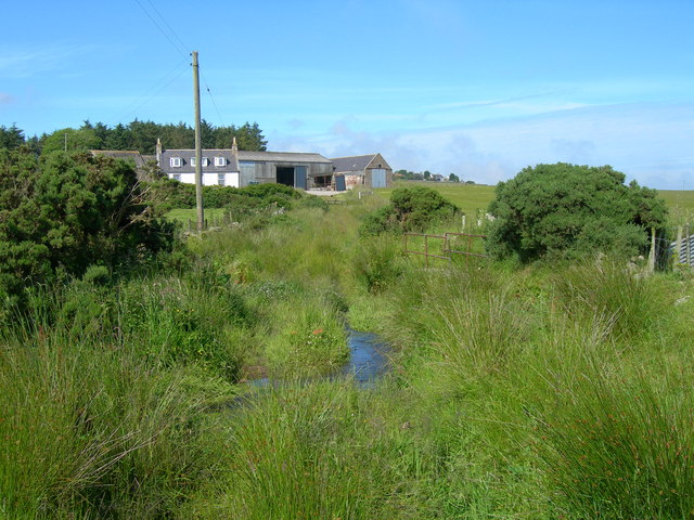 Looking north along the Causey Mounth to Nether Cairnhill The photograph looks across a ford of the Pheppie Burn.